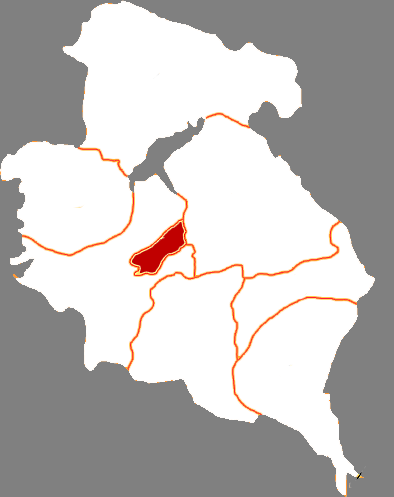 Location of Linxia county-level city in Linxia Hui Autonomous Prefecture, China